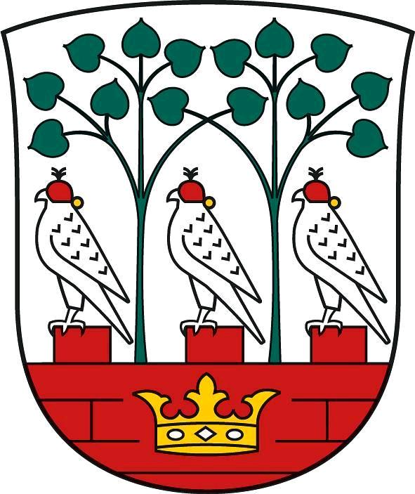 Frederiksberg Kommune logo